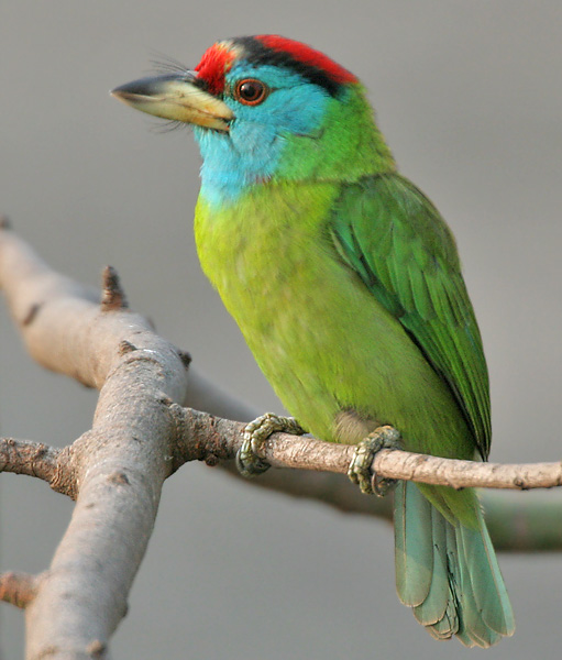 Blue-throated Barbet Megalaima asiatica in Kolkata, West Bengal, India.